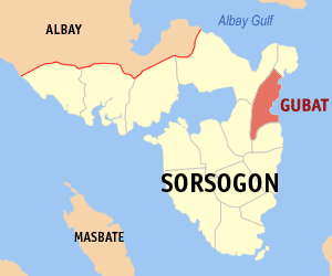 Map of Sorsogon showing the location of Gubat